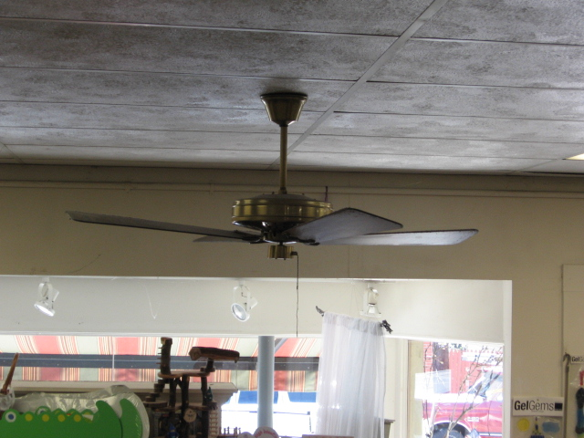 Picture of a 2nd-generation FASCO Charleston ceiling fan. Note that the blades are tilted upwards ("tilted relative to the Z-axis").